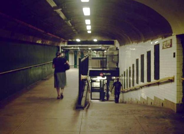 Passageway to fare control at 190th Street